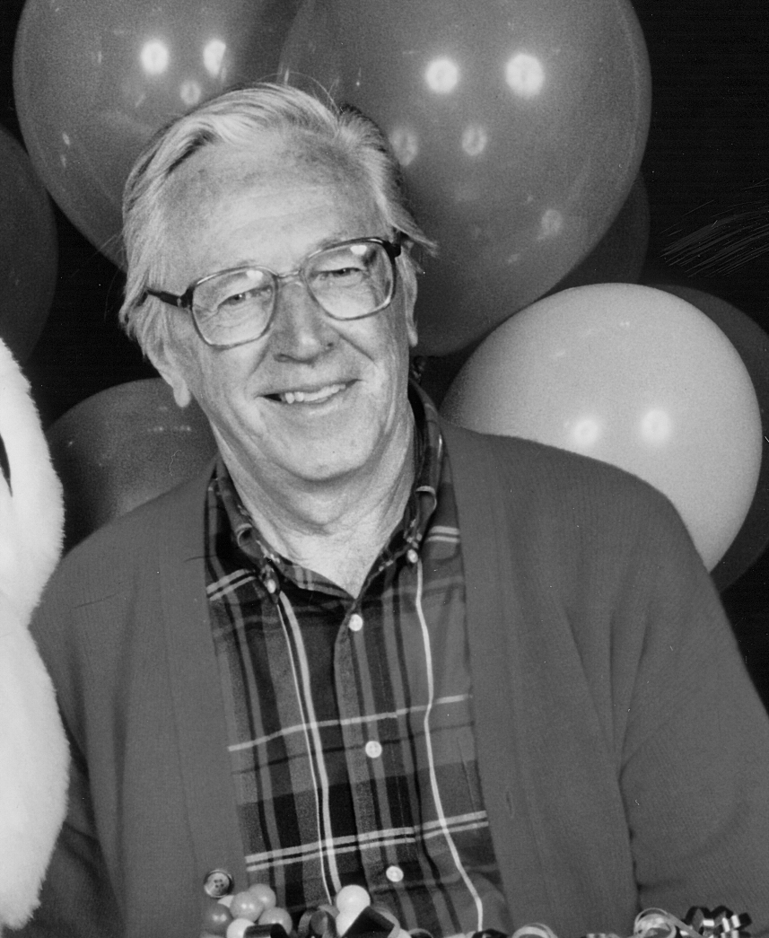 Cropped from the image shown in the Flickr link to show Schulz only, cropping out Snoopy to avoid copyright infringement on Wikipedia.